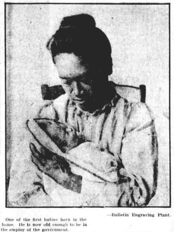 Photo Caption: "One of the first babies born in the home. He is now old enough to be in the employ of the government." Excerpt from the Accompanying Article: "'Exhibits' 20 Years and One Month at Baby Show": "Celebrating the twenty-first anniversary of the Kapiolani Maternity Home, a reception to all babies born in the institution was held on January 6. The affair was a huge success and particularly interesting because of the fact that the 'exhibits' numbering over one hundred, ranged in age from twenty-one years to one months and were of various nationalities. Some proud mothers brought one wee babe in arms and others brought as many as five and regretted that their other children could not get off from work to come too. One tiny miss of two years came chaperoned by her brother, aged five. This vivacious pair contributed in a large measure to the success of the afternoon." To see the rest of the article, go to the link below. "Happy Youngsters Begin Life at the Kapiolani Maternity Home" Evening Bulletin, January 13, 1912, 3:30 EDITION, Page 15, Image 15 From the University of Hawaii at Manoa Library